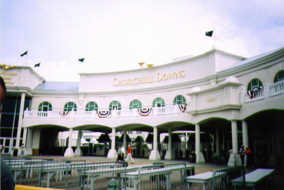 Churchhill_Downs_Gate_1